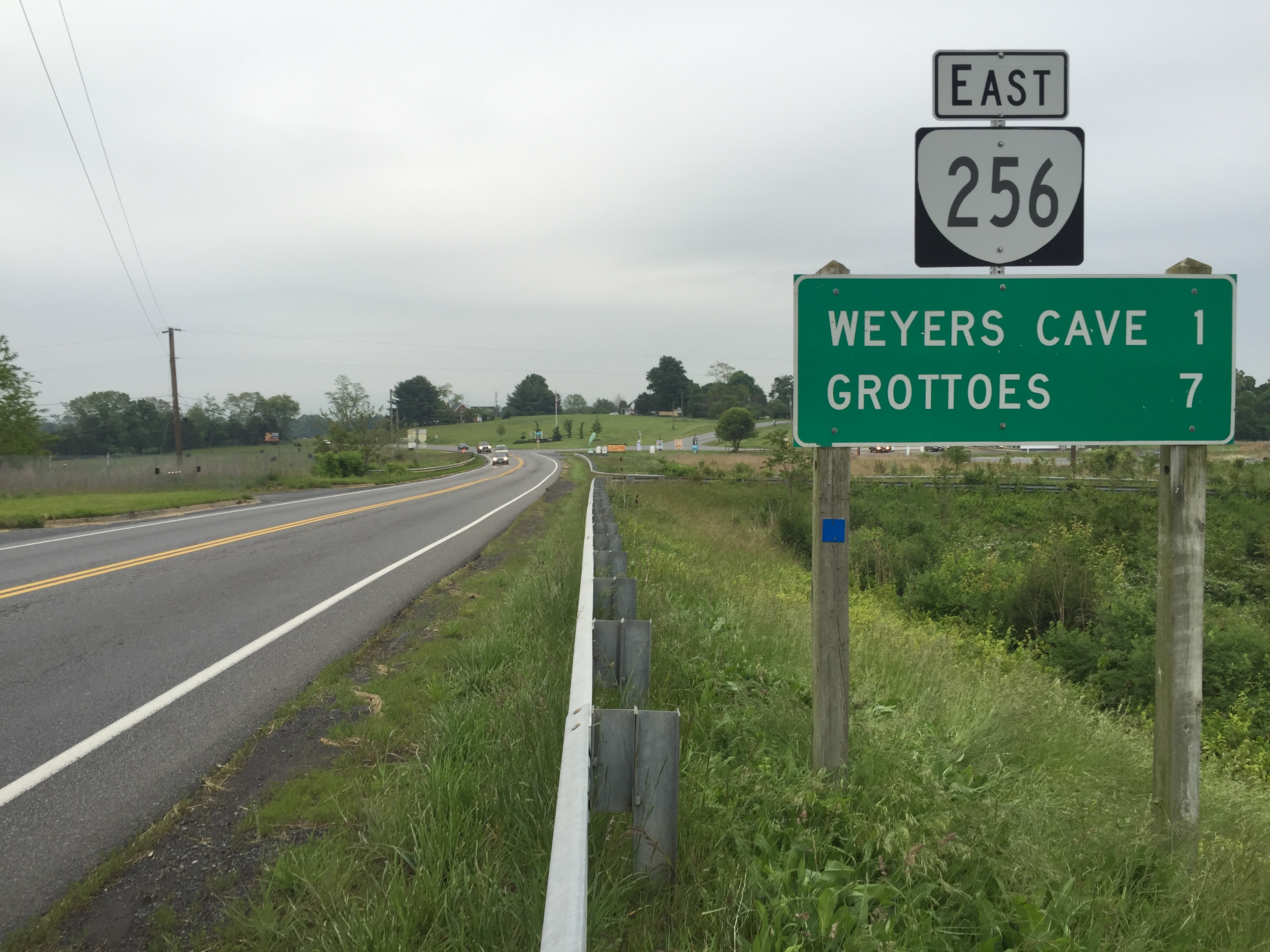 View east along Weyers Cave Road (Virginia State Route 256) near Interstate 81 in Weyers Cave, Augusta County, Virginia